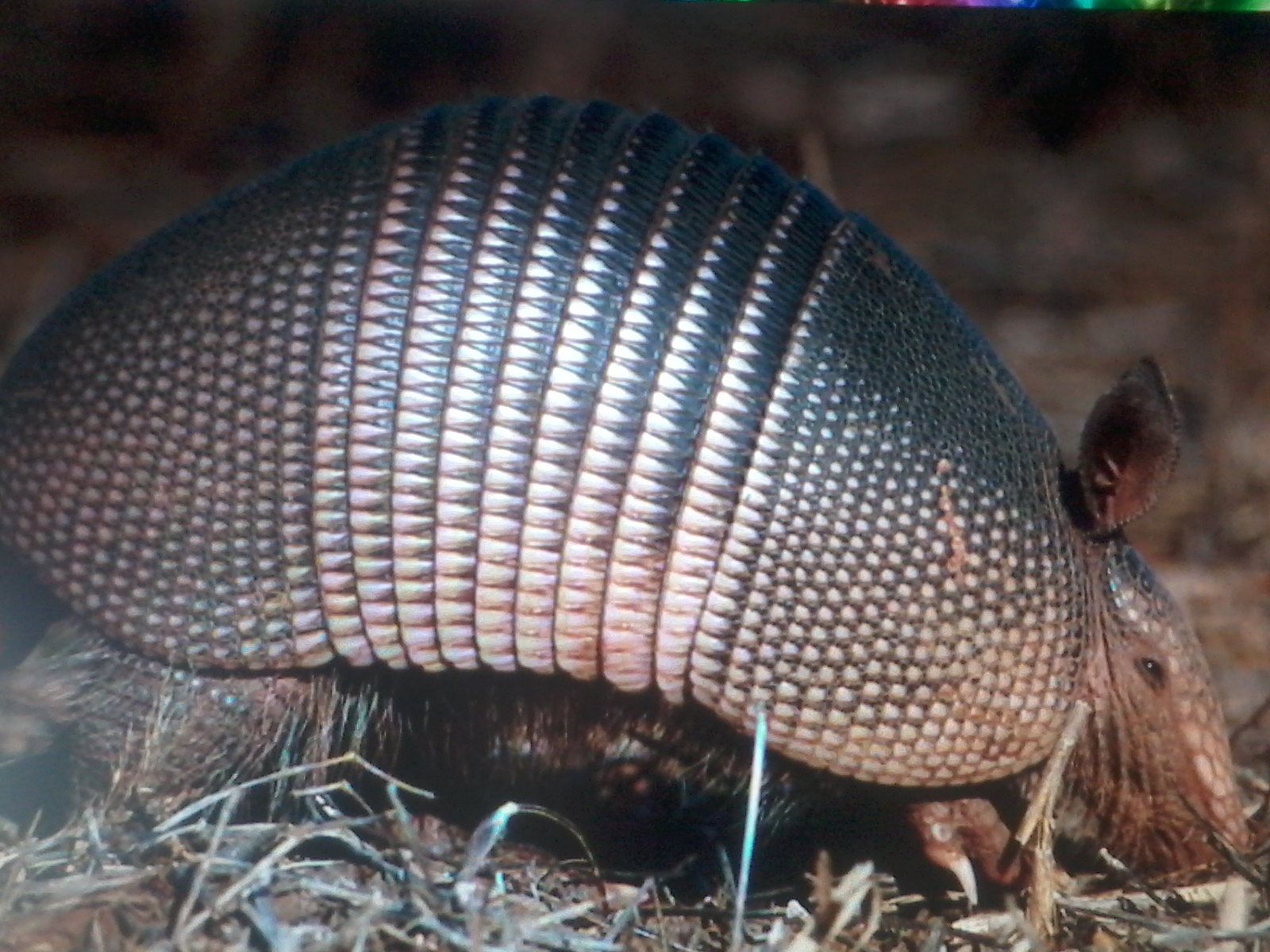 Armadillo Dasypus novemcinctus.